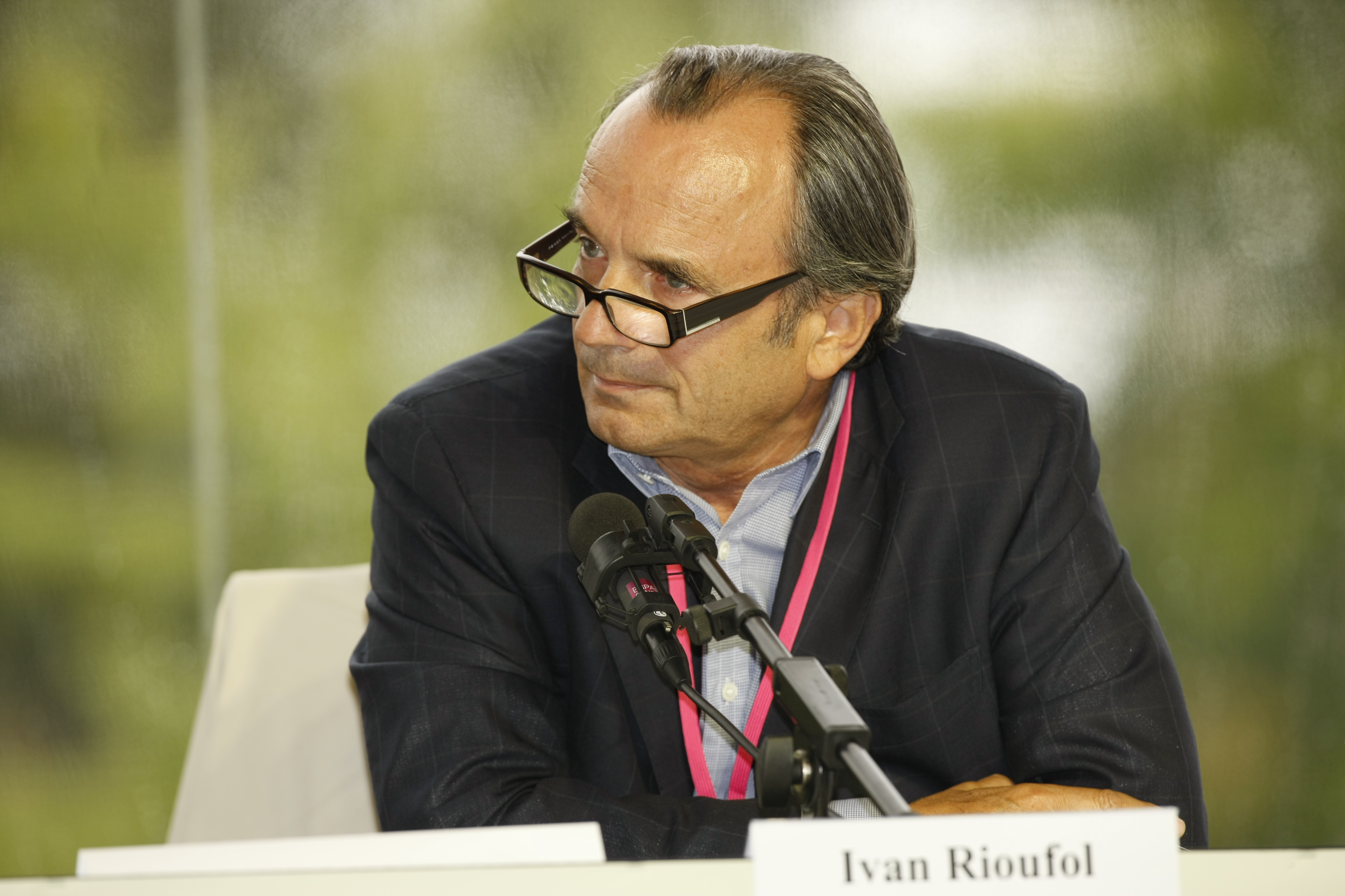 Ivan Rioufol